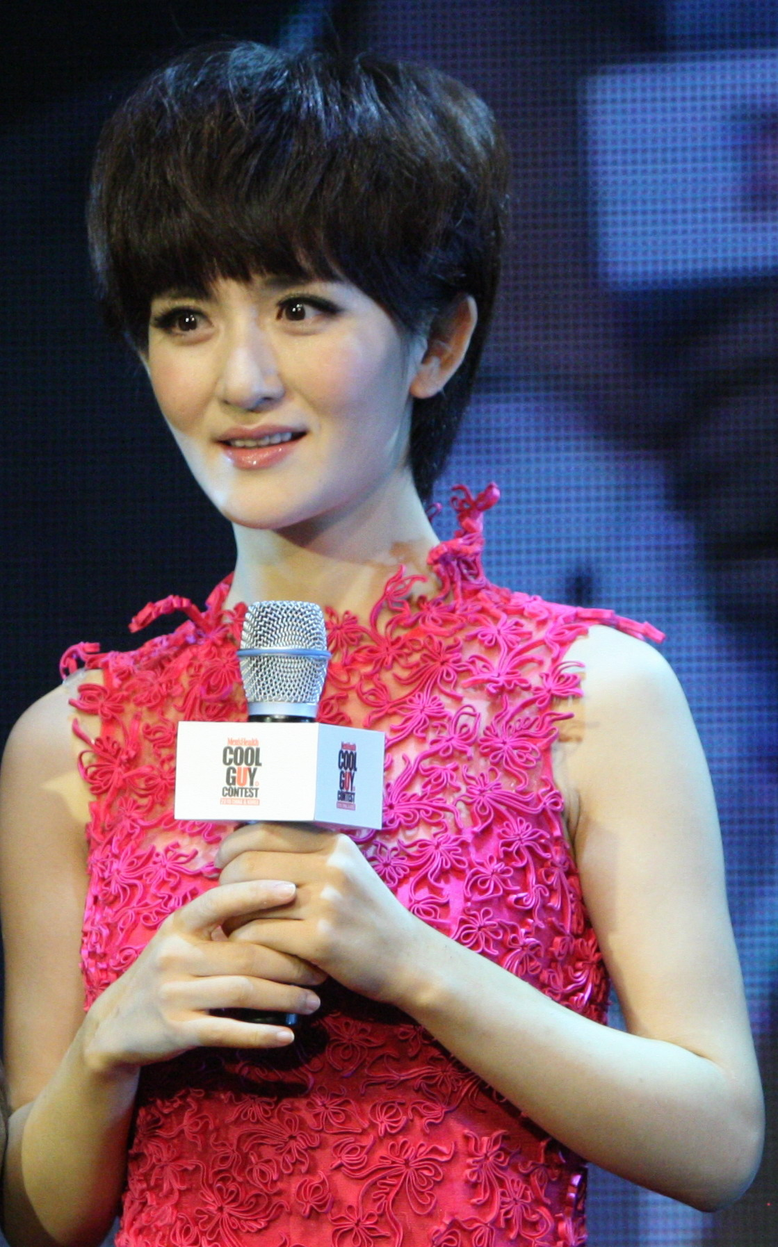 Xie Na on April 29, 2014.